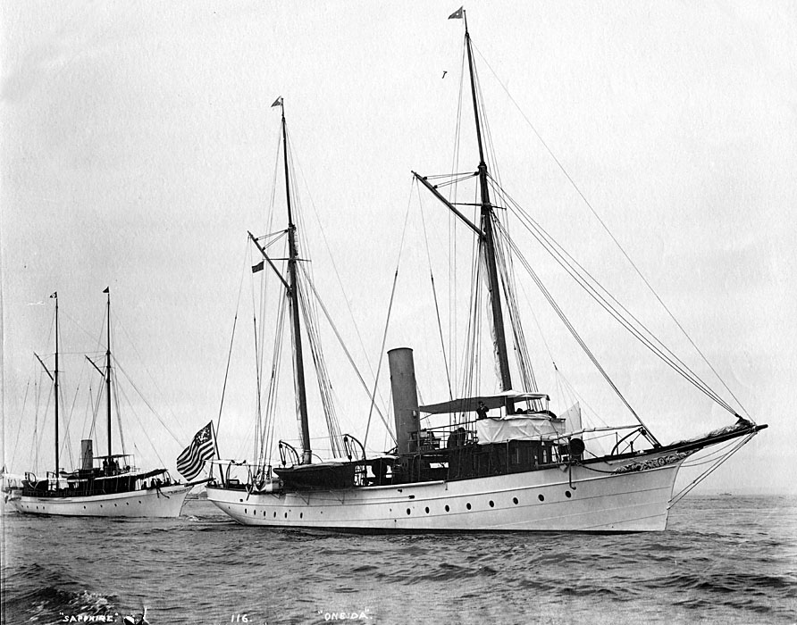 US steam yachts Oneida (ahead) and Sapphire (astern). Oneida was built in 1897 as Alcedo, renamed Atreus in 1912, renamedOneida in 1913 and scrapped in 1940. Sapphire was built in 1900, requisitioned as a US Navy patrol boat in 1917 and returned to her owner in 1918.